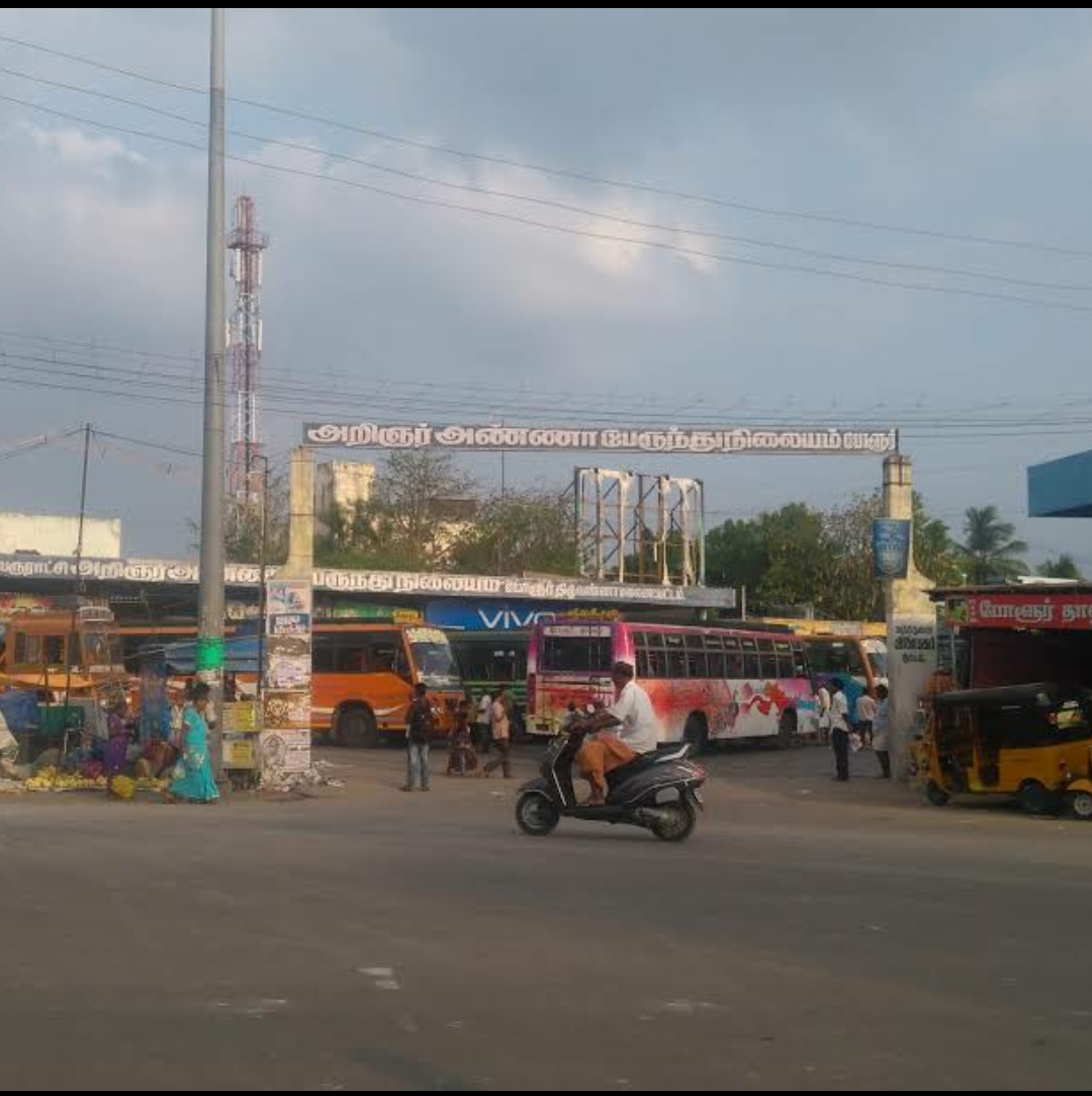 POLUR BUS STAND